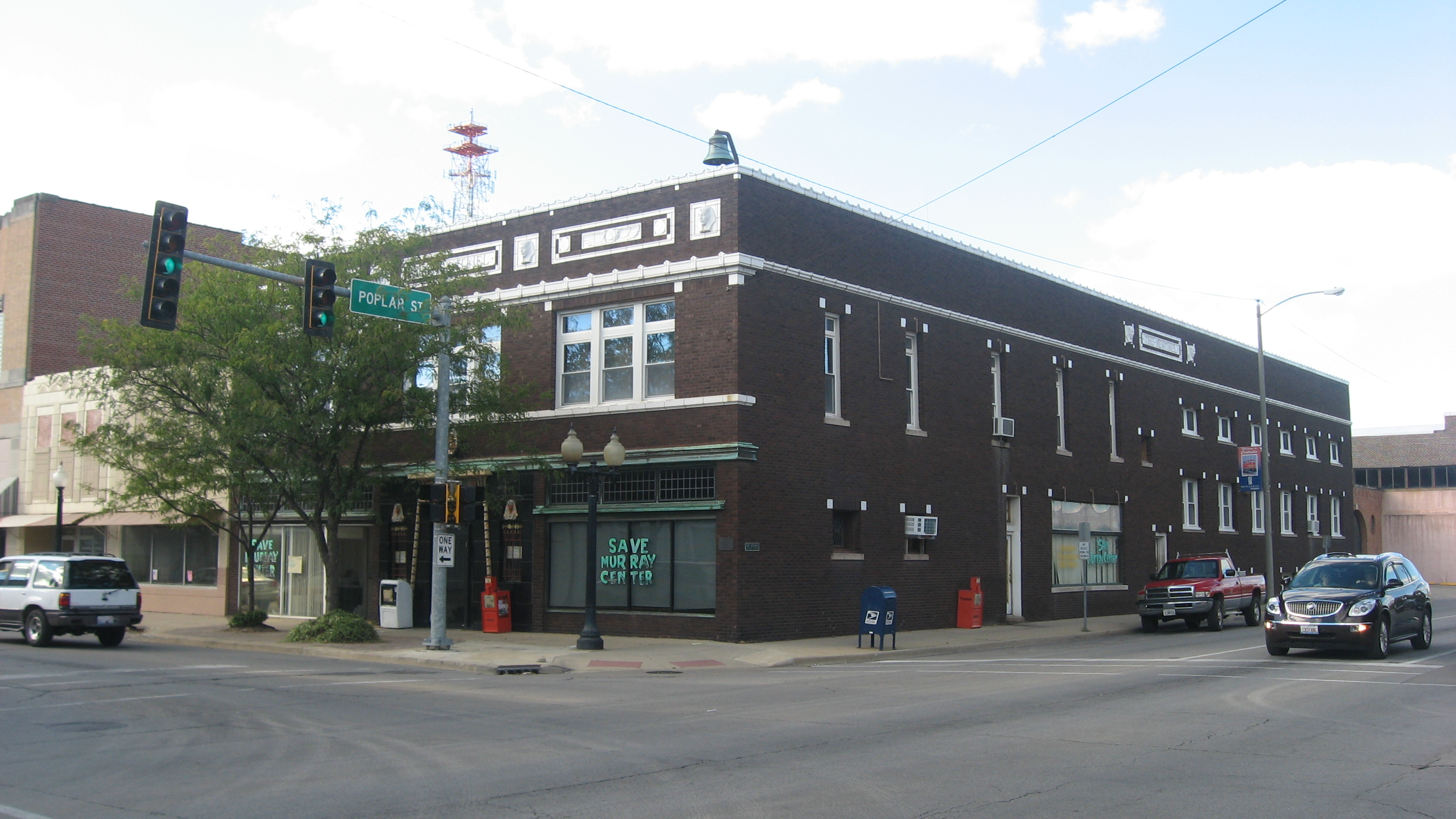 Front and eastern side of the Sentinel Building, located at 232 E. Broadway in Centralia, Illinois, United States. Built in 1881, it is listed on the National Register of Historic Places, and it is part of a Register-listed historic district, the Centralia Commercial Historic District.